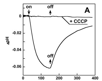 Les vessicles de membrana del Salinibacter ruber són il•luminades amb 500nm,es produeix el bombeig de protons a través de la membrana i com a conseqüència s’observa que pH durant el temps d’il•luminació va des de “on” fins a “off”, temps durant el qual la xantorrodopsina està activa.